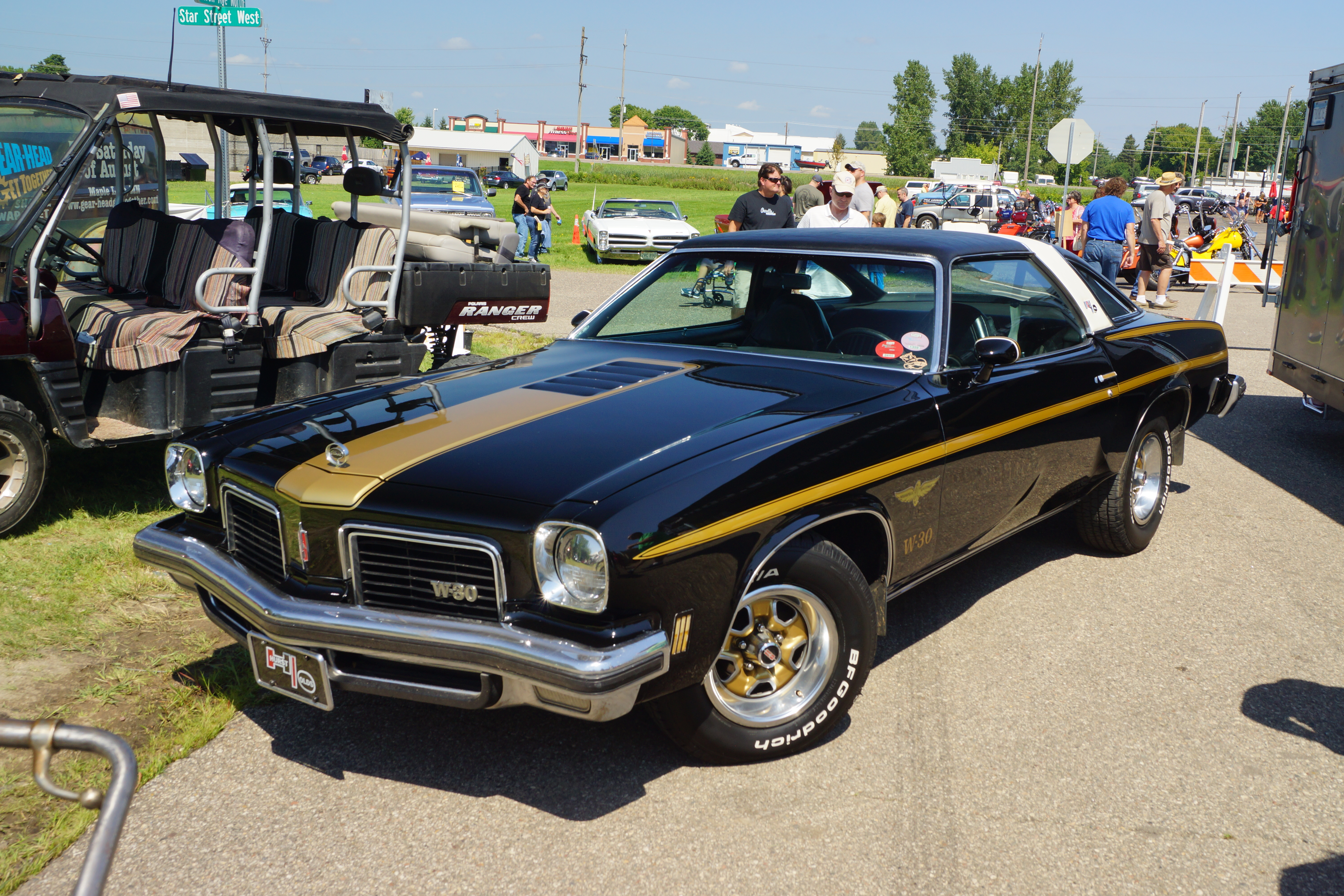 Gear-Head Get Together Show & Swap Meet Maple Lake, Minnesota August 2017 Click here for more car pictures at my Flickr site. Or here for my Car Crazy Tumblr site. Or on Twitter @DVS1mn.